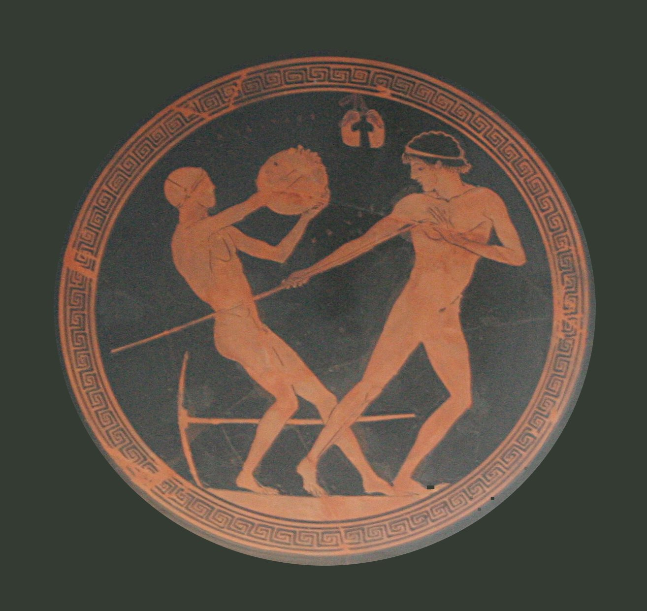 The three most important disciplines of the pentathlon: diskus, javelin and jumping weights in background. Tondo from an Attic red-figured kylix, ca. 490 BC. From Vulci.